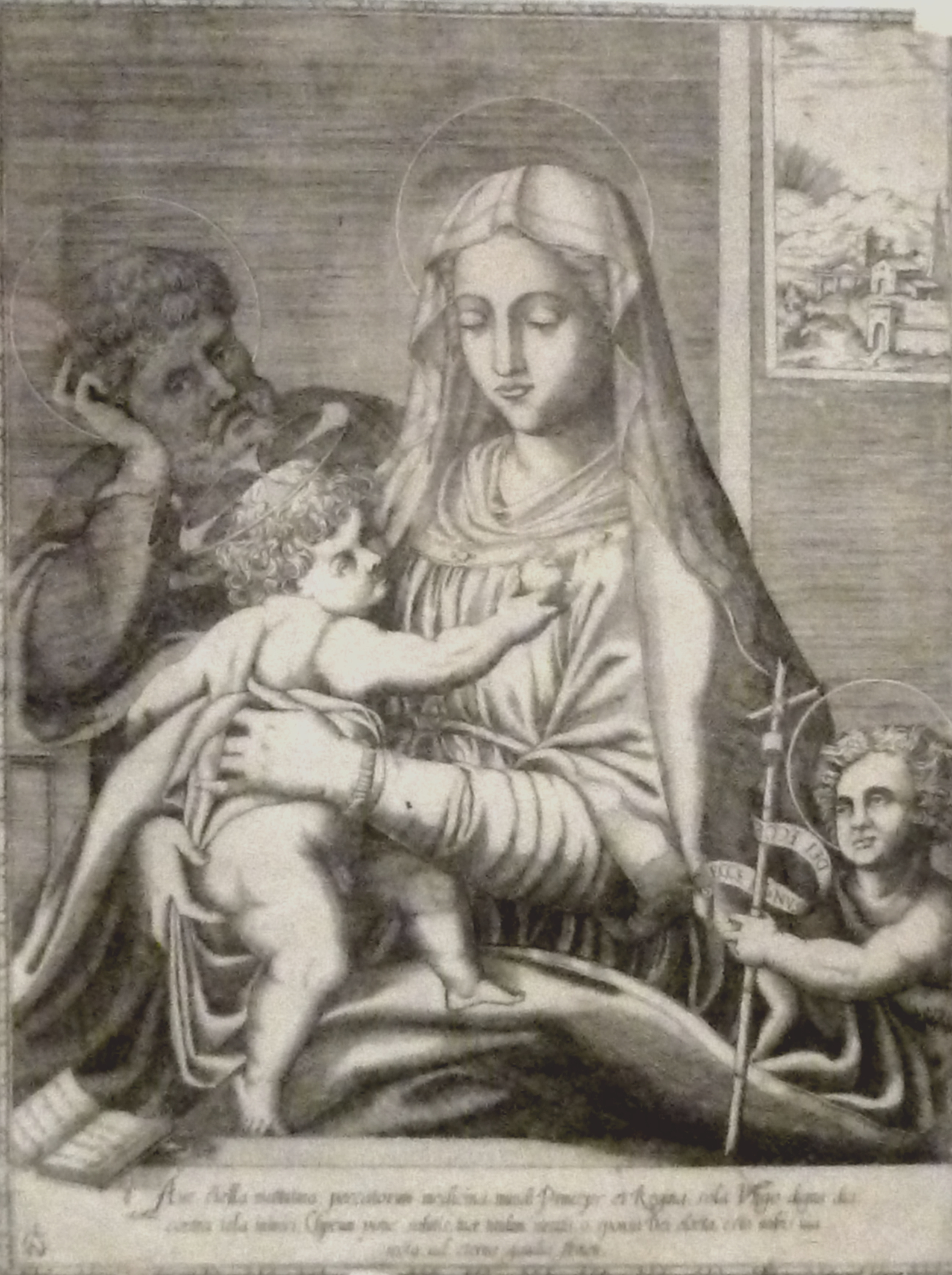 "Holy Family" by Mario Cartaro; 16th century, Italy; collection of the Musée L, Ottignies-Louvain-la-Neuve; Belgium